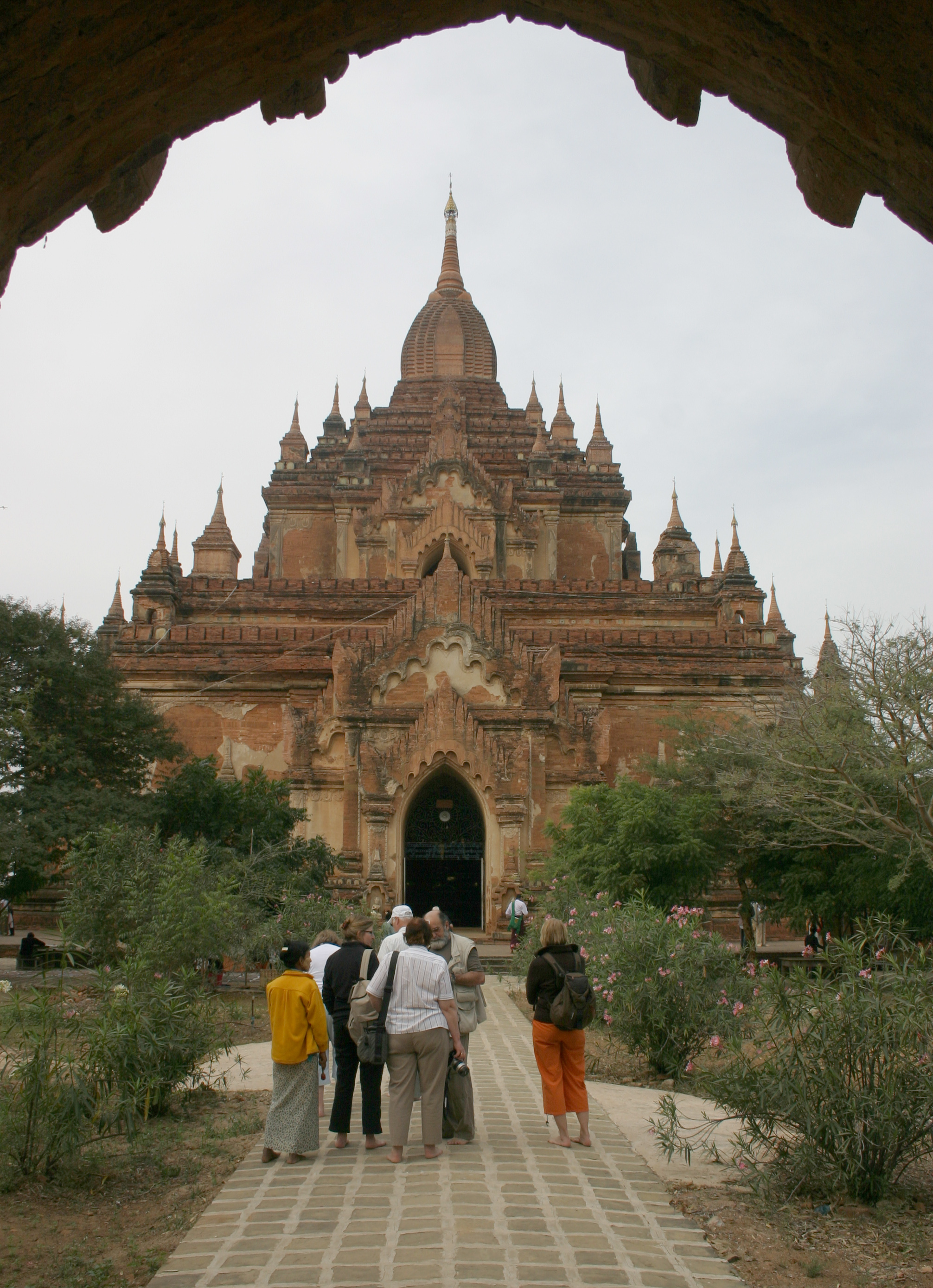 Htilominlo-temple in Bagan, Myanmar.